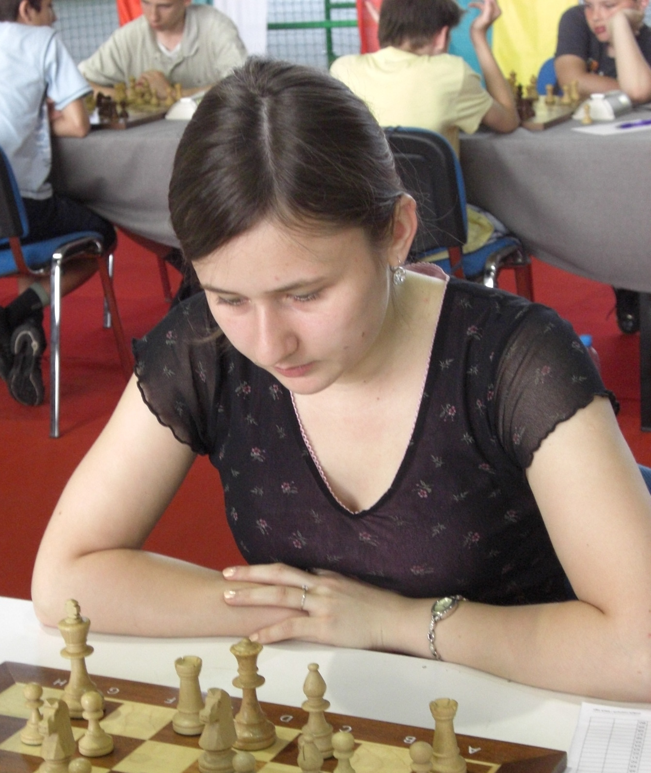 Deimante Daulyte during Polonia Wroclaw's 5th International Chess Tournament (2010)